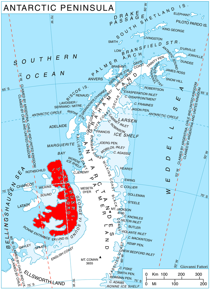 Location of Alexander I. Island, Antarctica